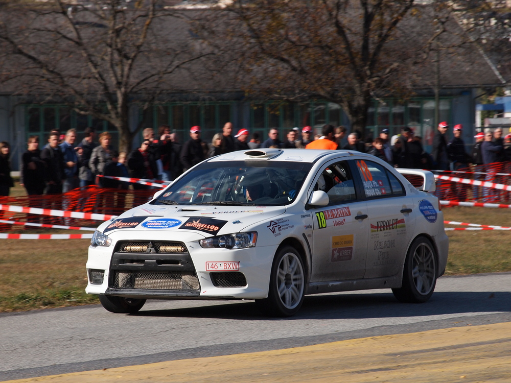 Roux Philippe at the Rallye du Valais section Casernes